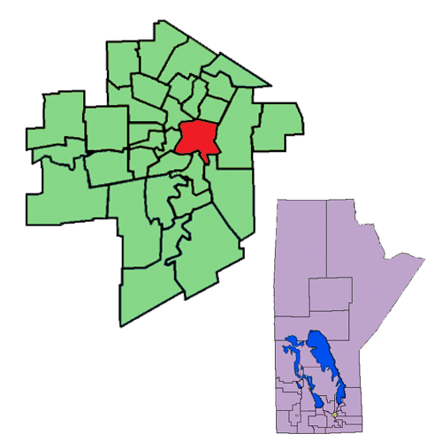 The 1999-2011 boundaries for the St. Boniface electoral district highlighted in red